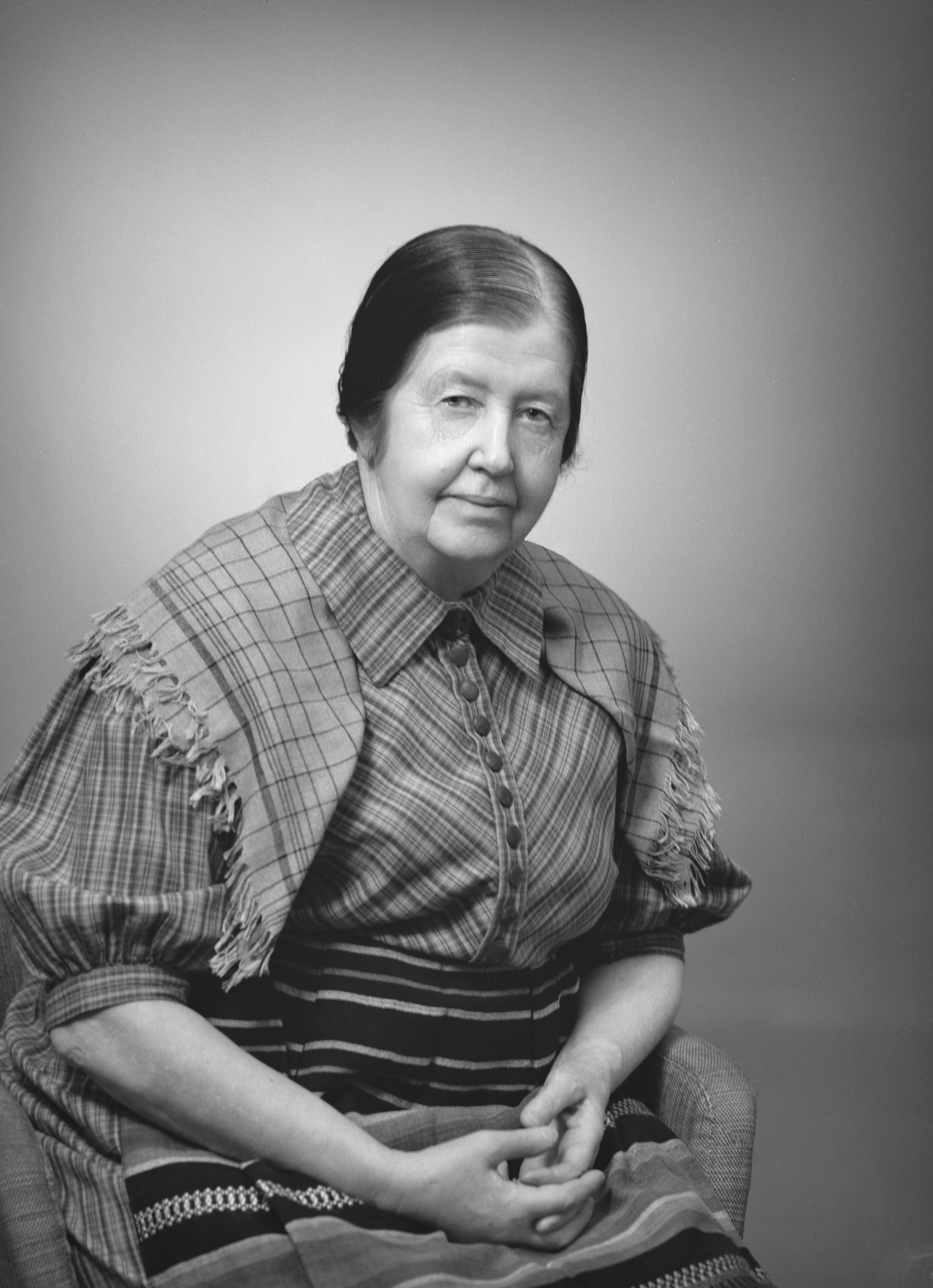 Photograph of the Finnish writer Elna Pelkonen (1896–1969).